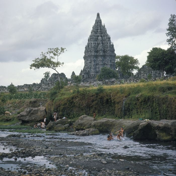 People bathing and washing in a river at the Candi Lara Jonggrang or Prambanan temple complex